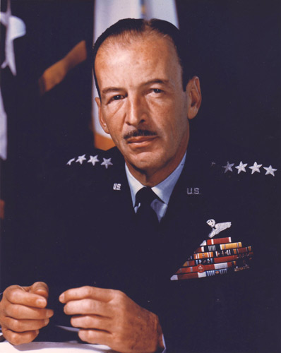 Genereal Laurence S. Kuter